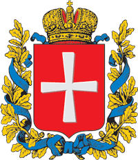 Coat of arms of Volhynian Governorate, Russian Empire